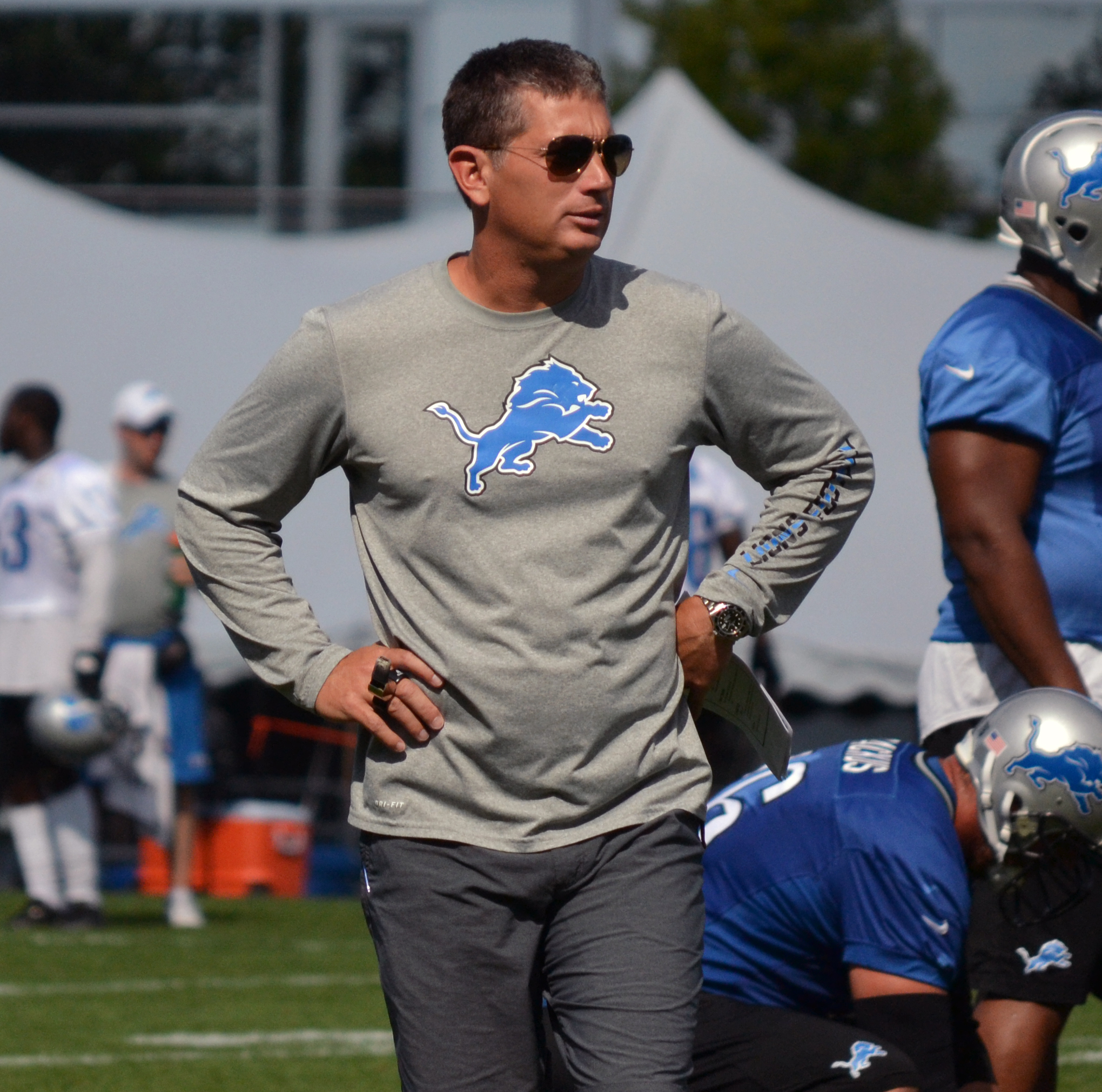 Detroit Lions head coach Jim Schwartz at the 2012 Detroit Lions training camp